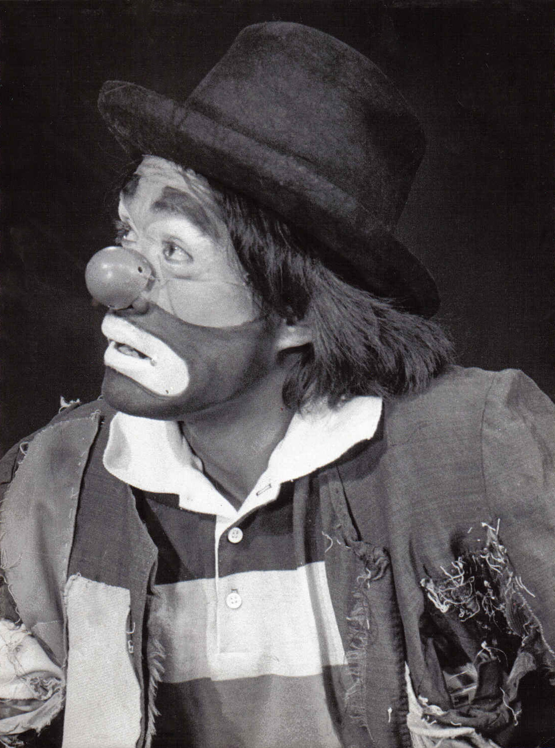 Chuchin The Clown. Derived from File:Black_and_White_looking_sad.jpg by cropping and touching up defects.